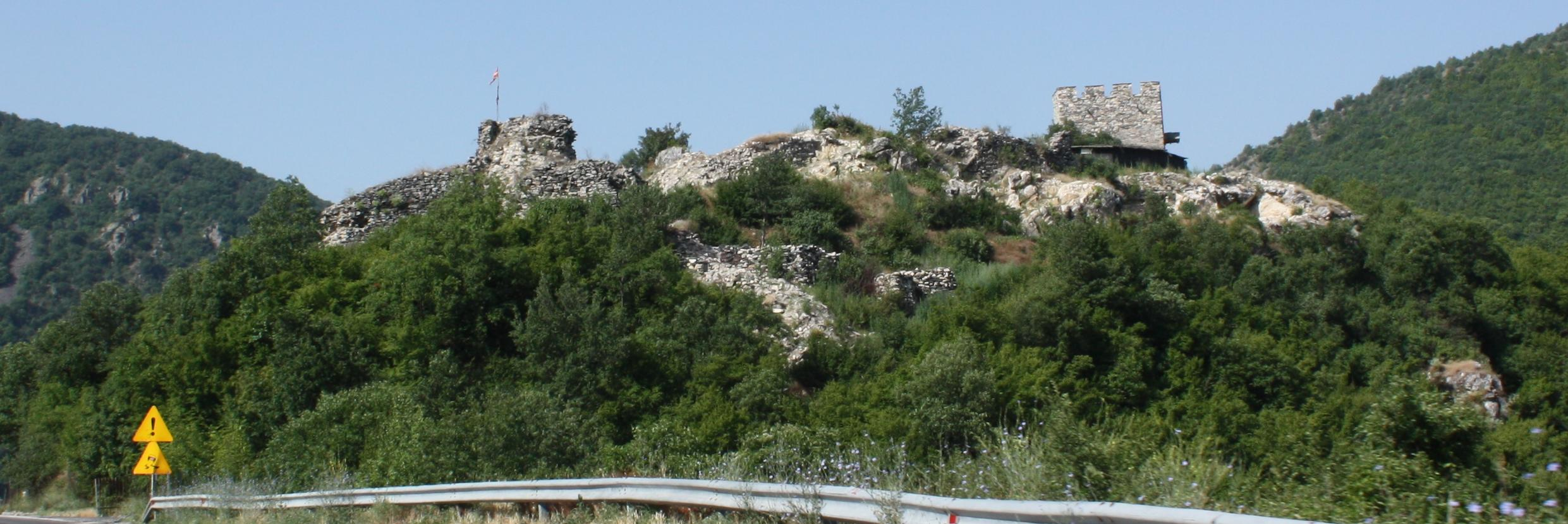 Markovi Kuli near Letevci, Skopje, Macedonia